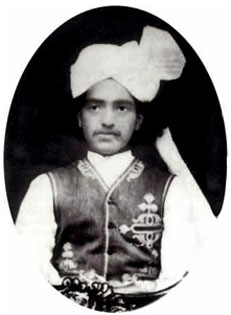 Peer Syed Ghulam Mohiyyuddin Gilani, Babuji young picture